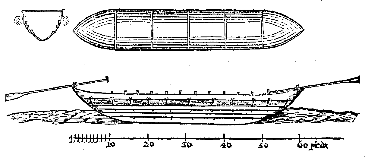 Illustration of a Zaporozhian cossack "chaika" boat (warship of Ukraіnian Cossacks in 16-17th c.) from Guillaume Le Vasseur de Beauplan's book "Description of Ukraine" 1660